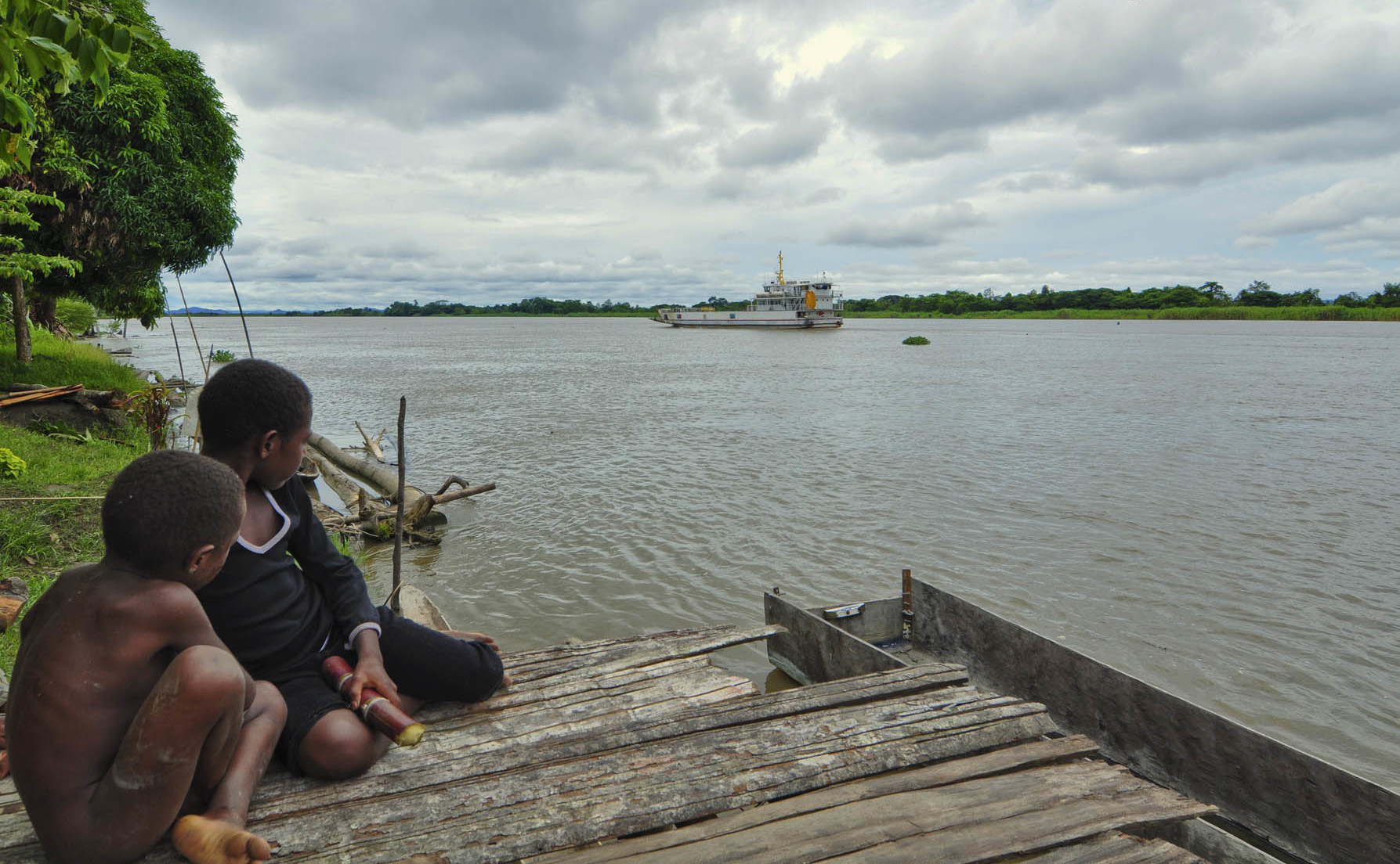 A cargo ship crossing the river